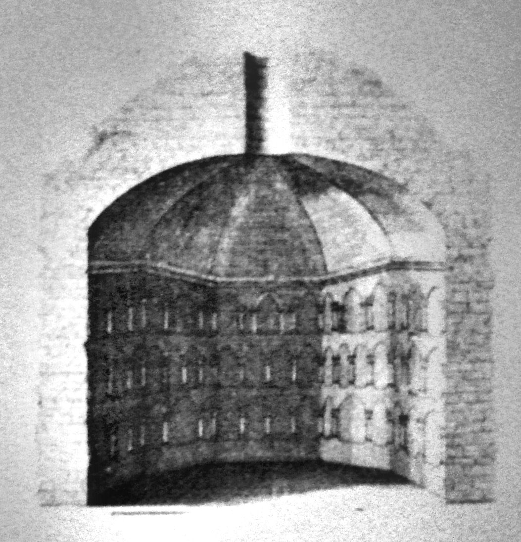 Seven_sided_sanctuary_of_Notre_Dame_de_la_Dorade_with_niches